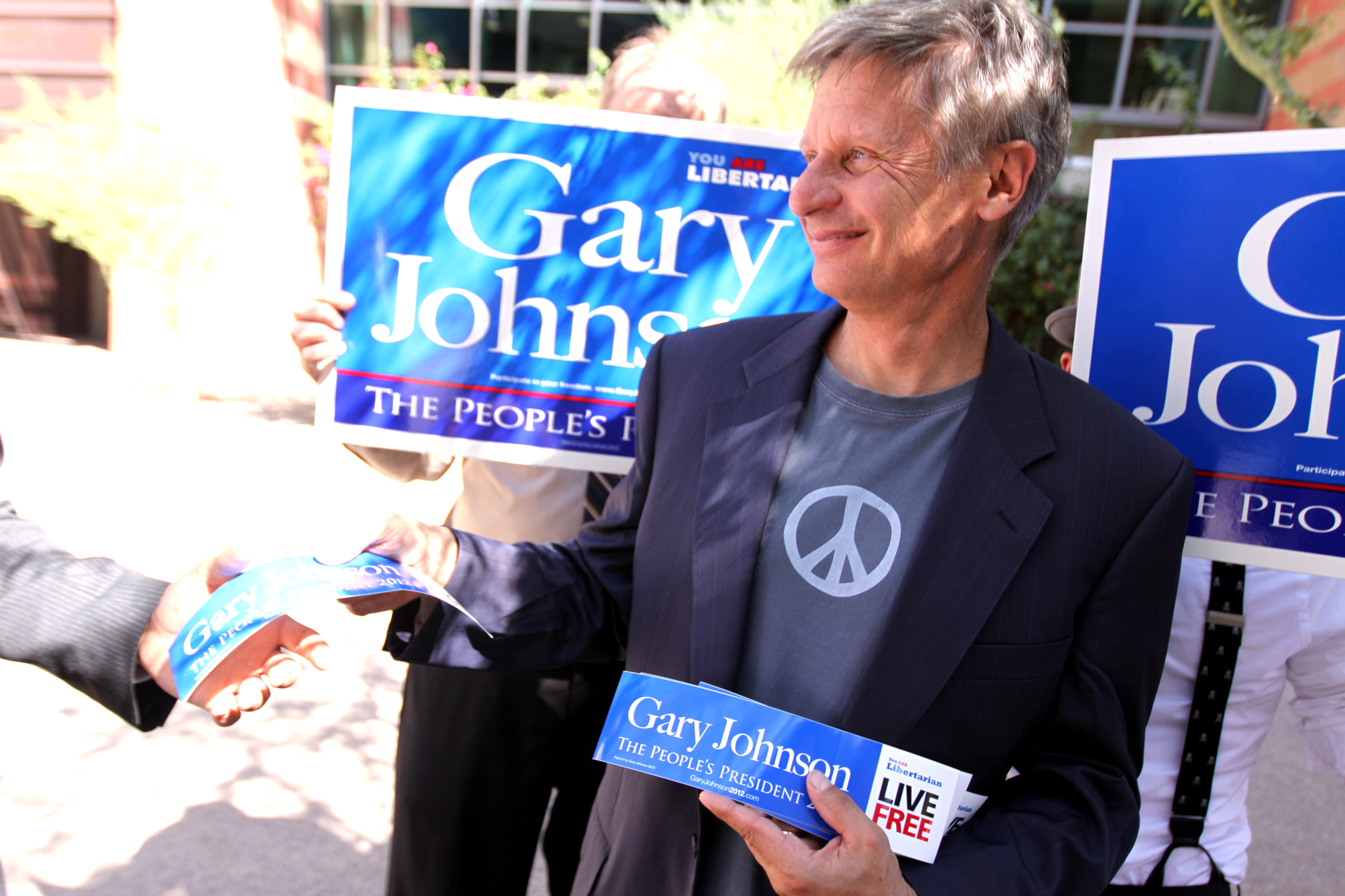 Gary Johnson 2012